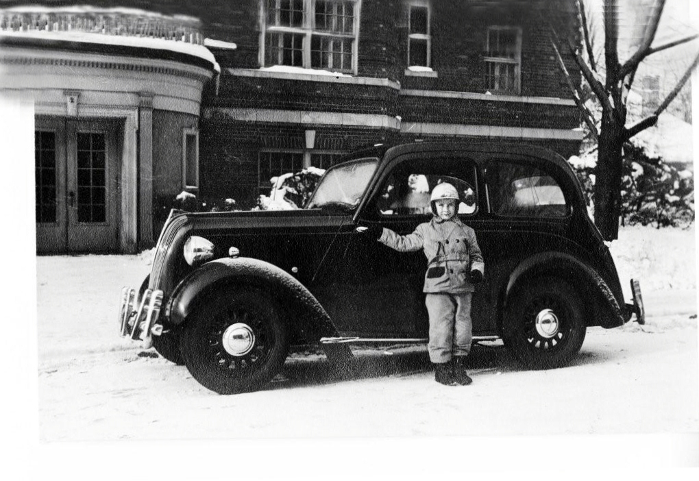 My father took this photo. I inherited it after he died and I now own it.